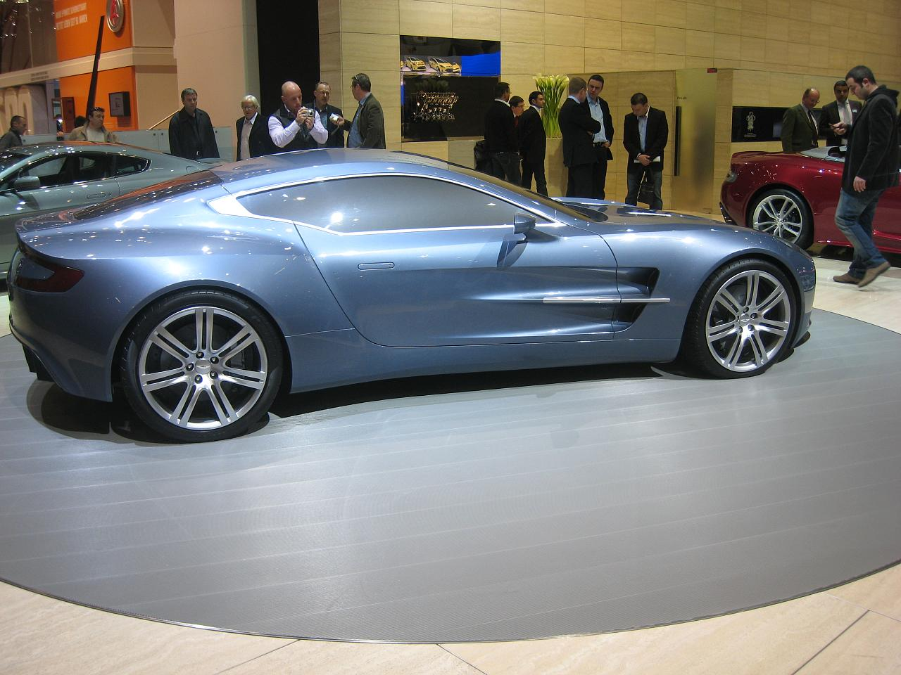 Aston Martin One-77 at the 2009 Geneva Auto Show